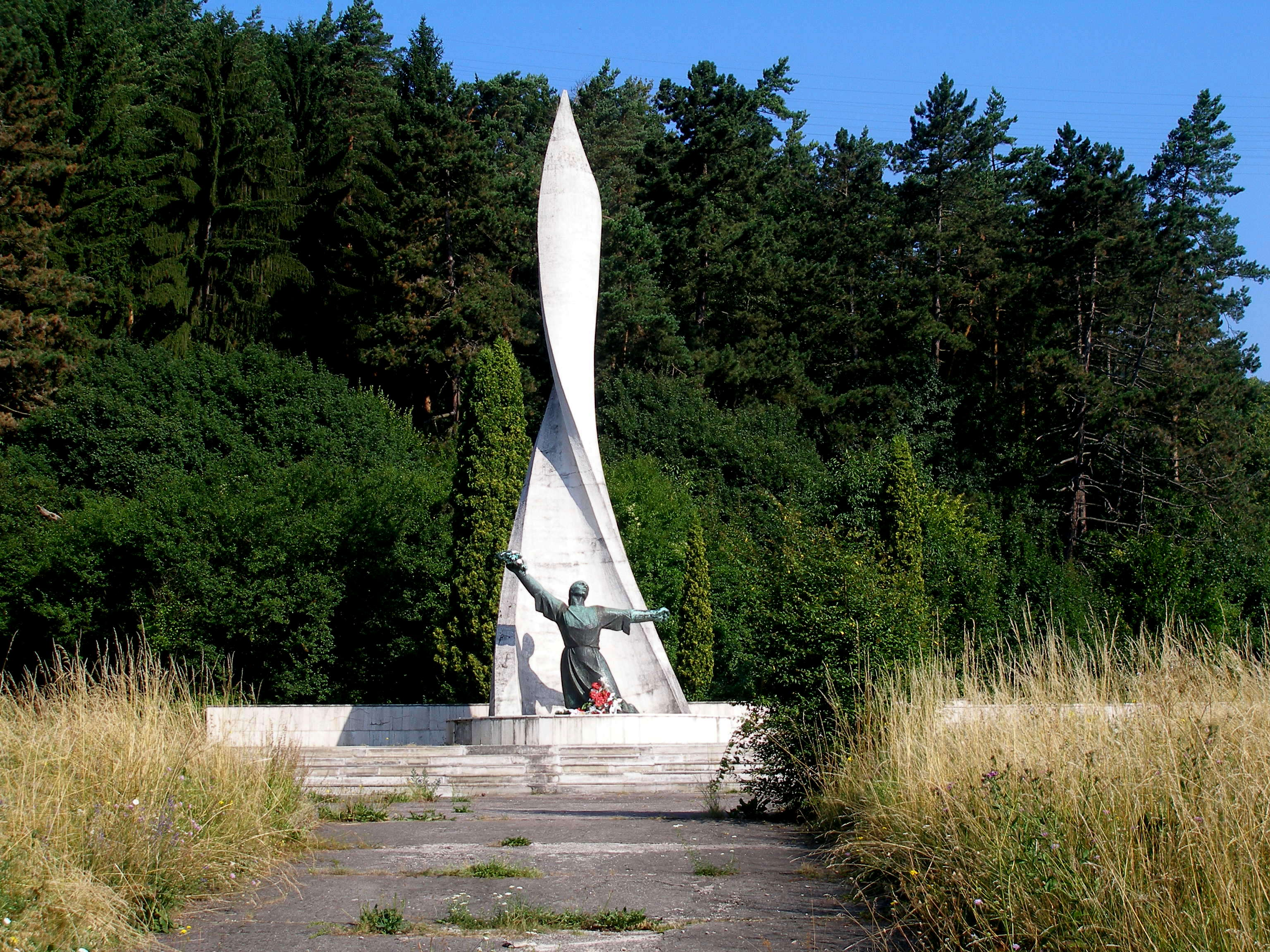 The Memorial of the Slovak National Uprising, Nemecká was created in 1959, following the design of architects A. Béllu, E. Stančík, M. Belluša and academic sculptors K. Patakiová and A. Vika. The memorial was built to the victims of the resulting fascist reprisals. The bronze statue of a woman was created by the academic sculptor Klára Pataki and the concrete flame was created by Alexander Vika.